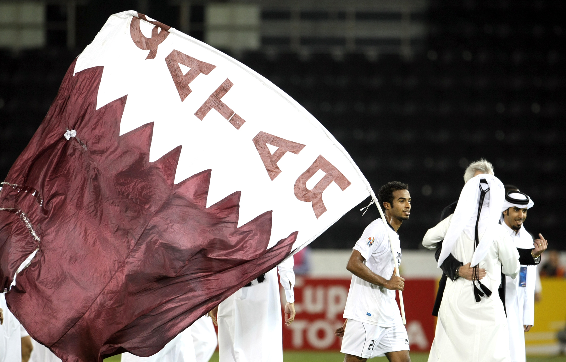 Al Sadd's Ali Afif celebrates with a Qatari flag after his side defeated South Korea's Suwon Bluewings in the semifinal of the AFC Champions League. Pic by Mohan